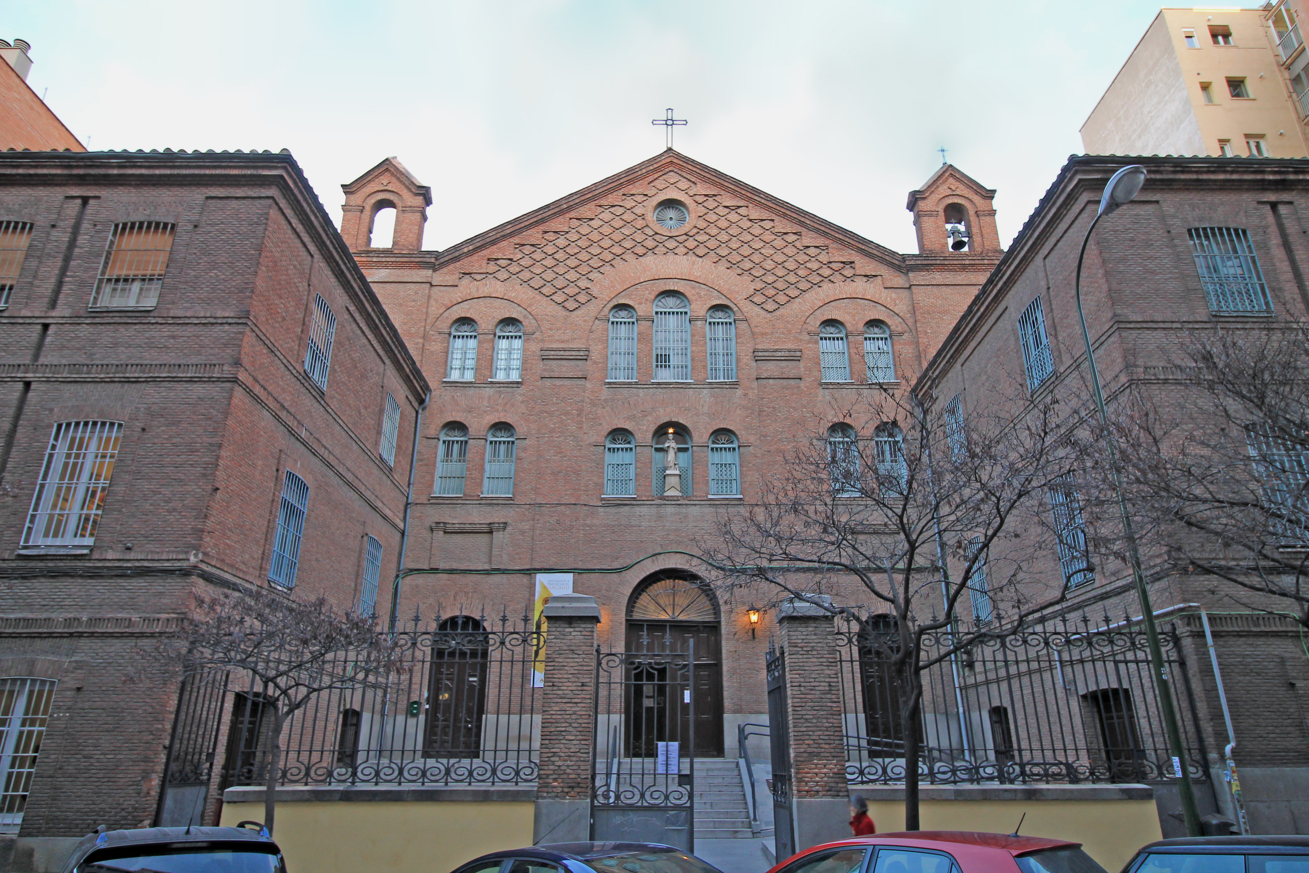 Façade of St. Dominic's Church in Madrid (Spain).